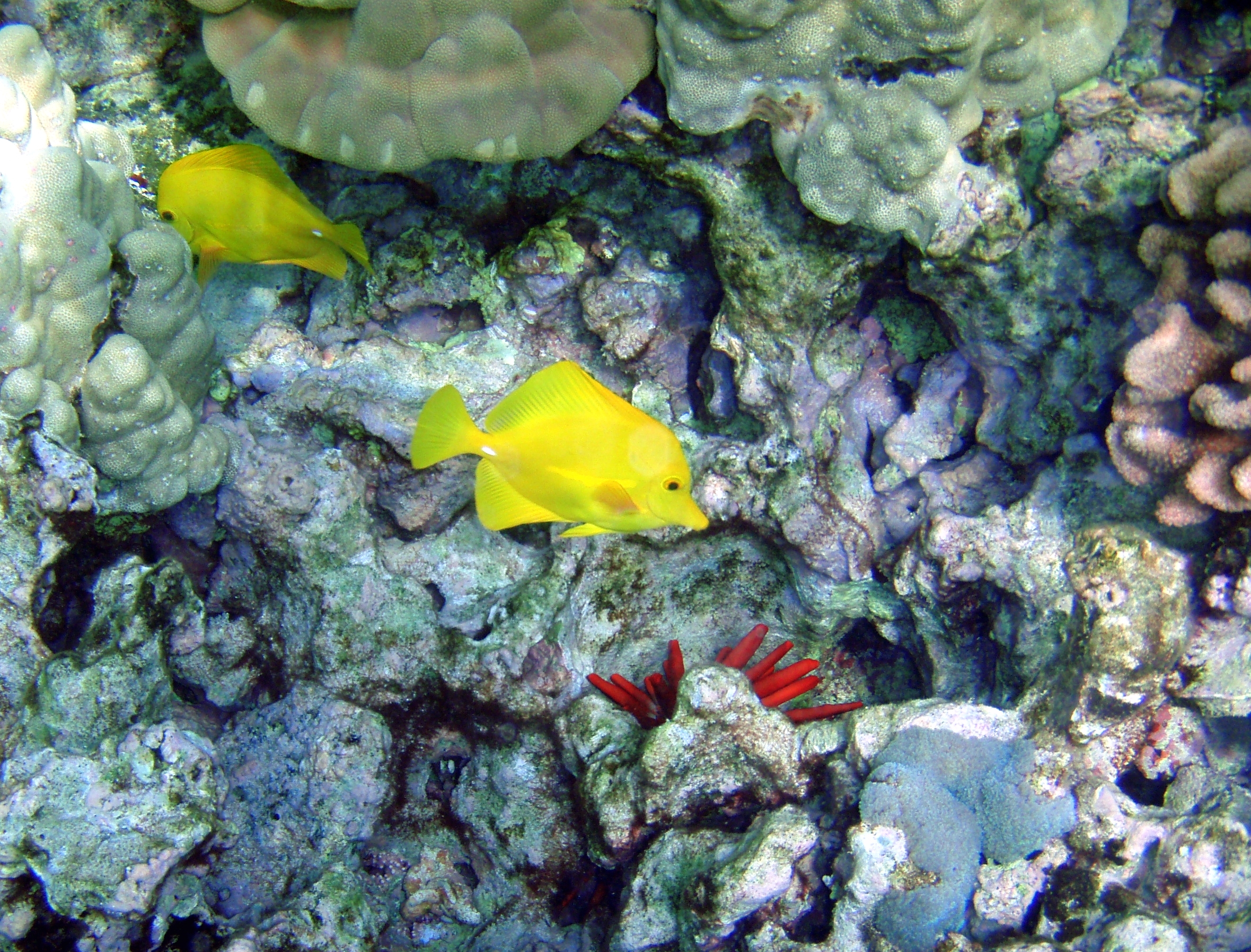 Caral reefs at Kona with Yellow Tangs Zebrasoma flavescens, Sea Urchins, corals